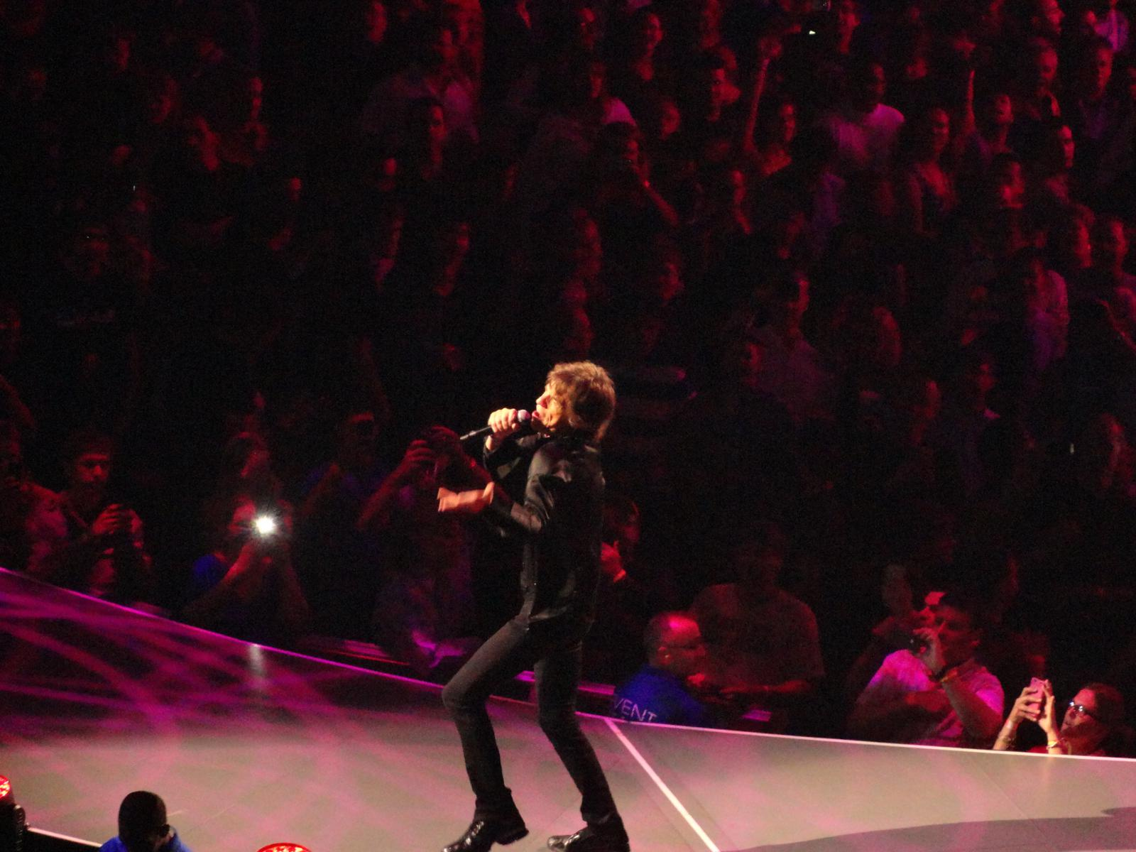 Vocalist Mick Jagger- The Rolling Stones "50 And Counting Tour"-Boston, Mass. June 12, 2013